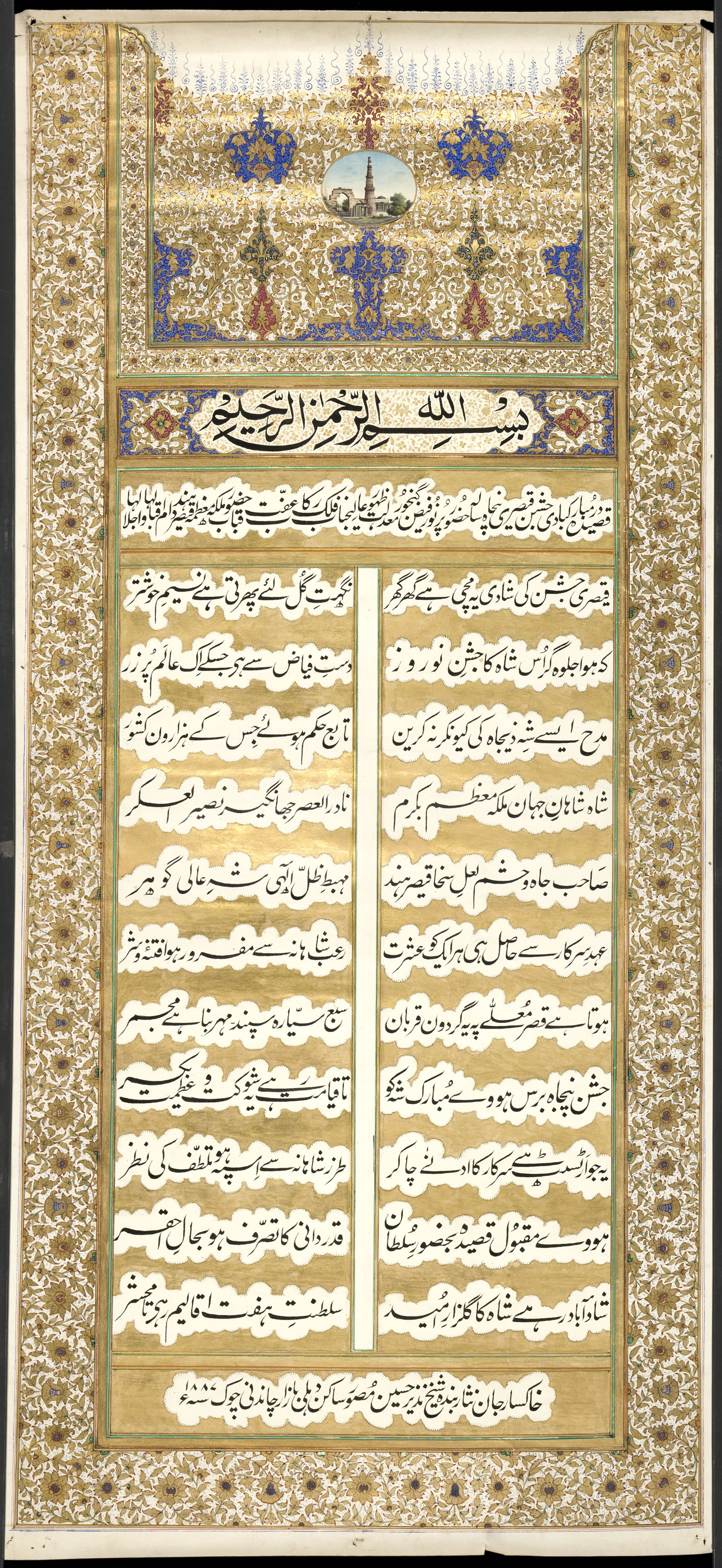 Description: Sheik Nazeer Hussain of Delhi: address to Queen Victoria on her Golden Jubilee. Illuminated; in Persian. Date: 1887 Our Catalogue Reference: PP 1/222/1 This image of a loyal address has been uploaded by The National Archives as part of the 2012 Diamond Jubilee celebrations. Feel free to share it within the spirit of the Commons. For high quality reproductions of any item from our collection please contact our image library.